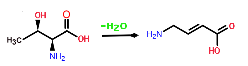 Amine-crotonic acid synthesis from threonine